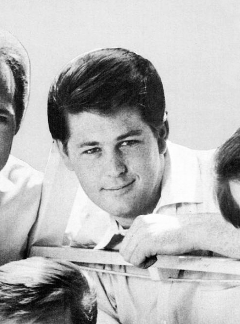 Trade ad for The Beach Boys's single "California Girls" / "Let Him Run Wild".To better adapt it to his respective Wikipedia article, the ad was cropped and cleaned in a graphics editing program. The original can be viewed at the source below.